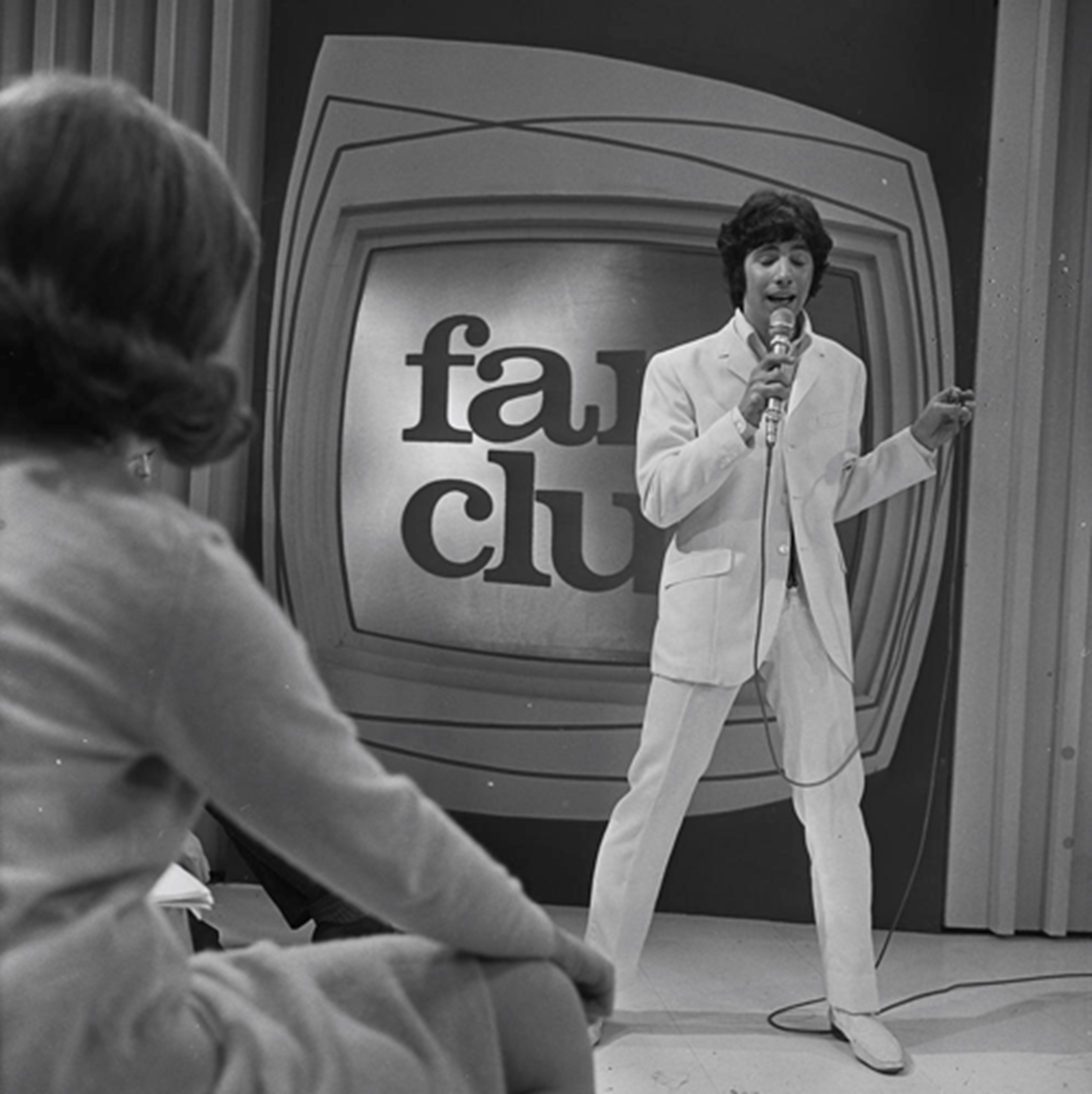 Cat Stevens singing "Portobello Road" and "I love my dog". Dutch TV programme "Fanclub". Recording date 15 October 1966, broadcast date 21 October 1966.